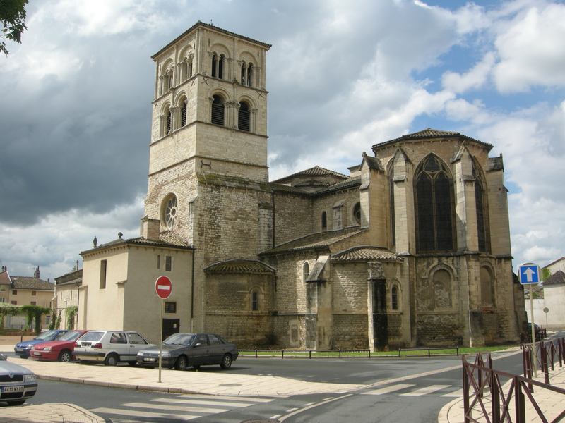 Church